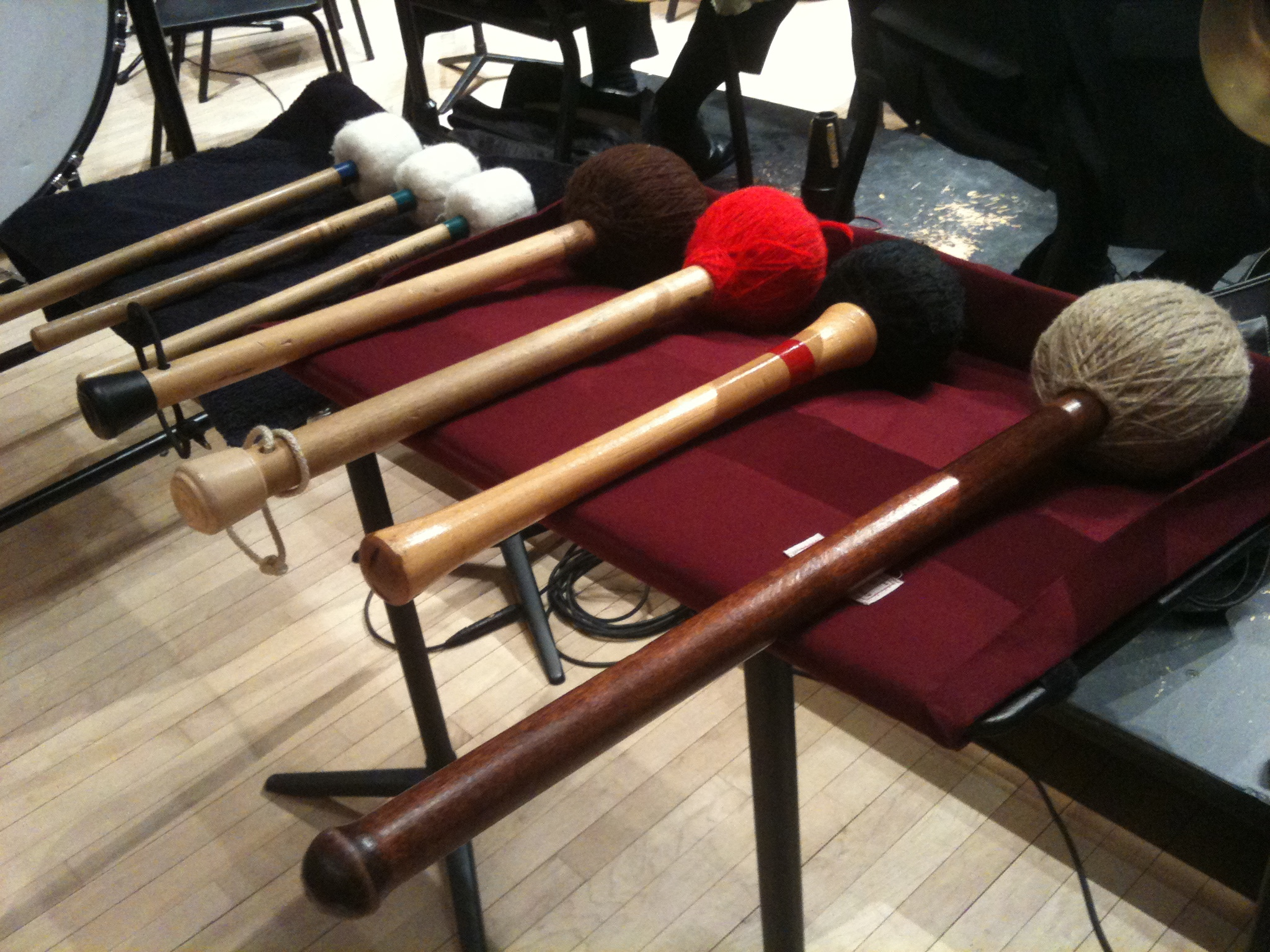 A selection of bass drum and tam-tam mallets to be used during a performance of the Alexander Nevsky Cantata by Sergei Prokofiev.